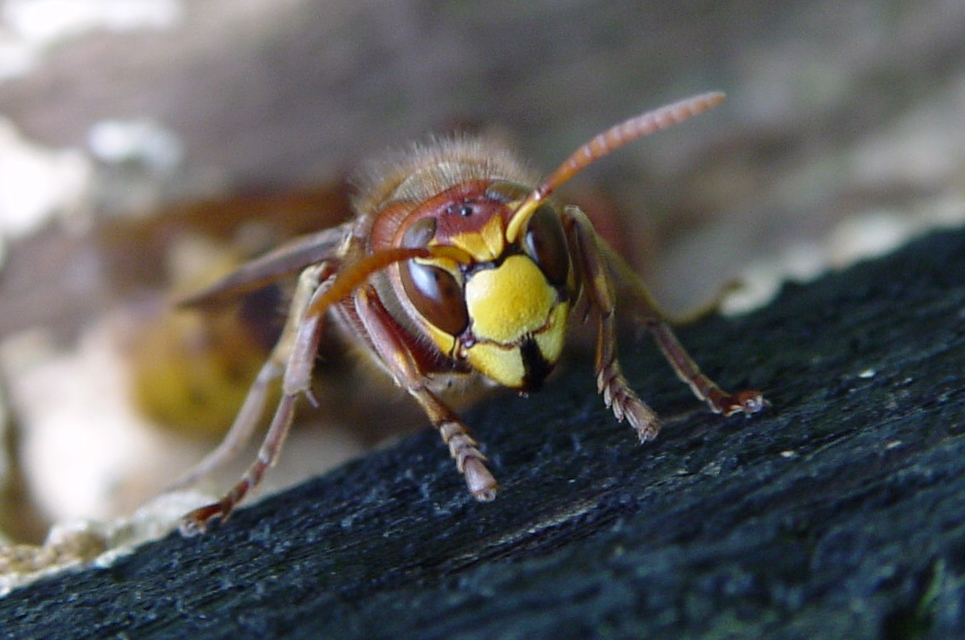 Hornet (Vespa crabro)(worker)(Netherlands)